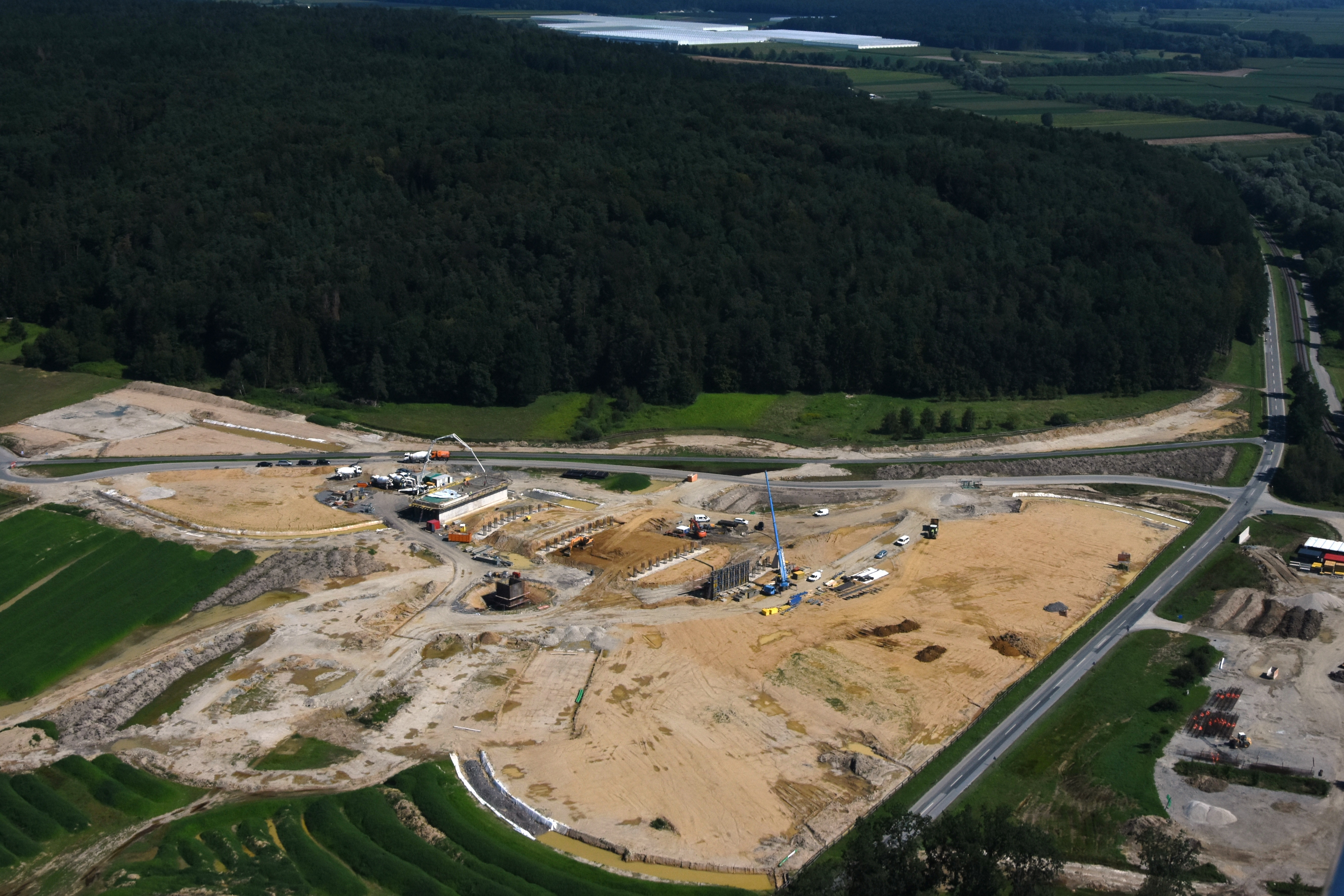 AST Fürstenfeld S7 Fürstenfelder Schnellstraße Aerial photographs